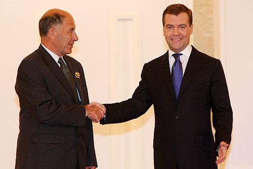 THE KREMLIN, MOSCOW. A national award has been awarded to chief researcher of the Department of Geometry and Topology of the V.A. Steklov Mathematical Institute of the Russian Academy of Sciences Vladimir Arnold for his outstanding contribution to the development of mathematics.